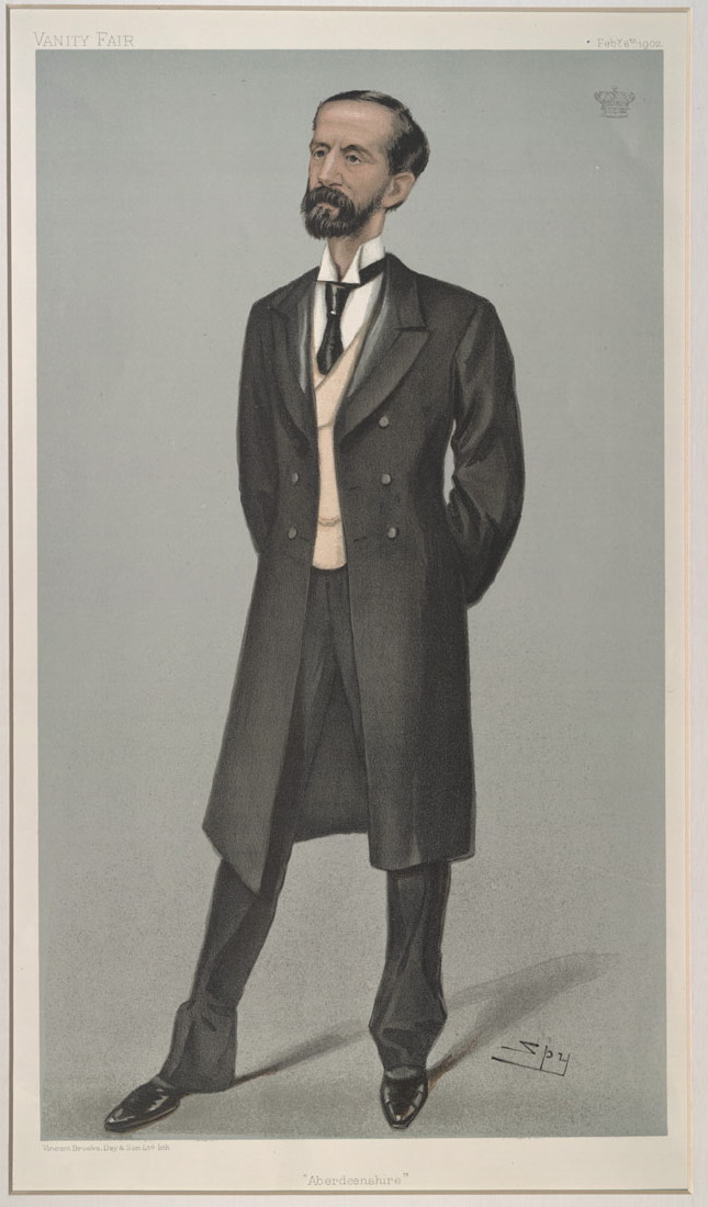 Statesmen No.745: Caricature of The Earl of Aberdeen. Caption reads "Aberdeenshire".